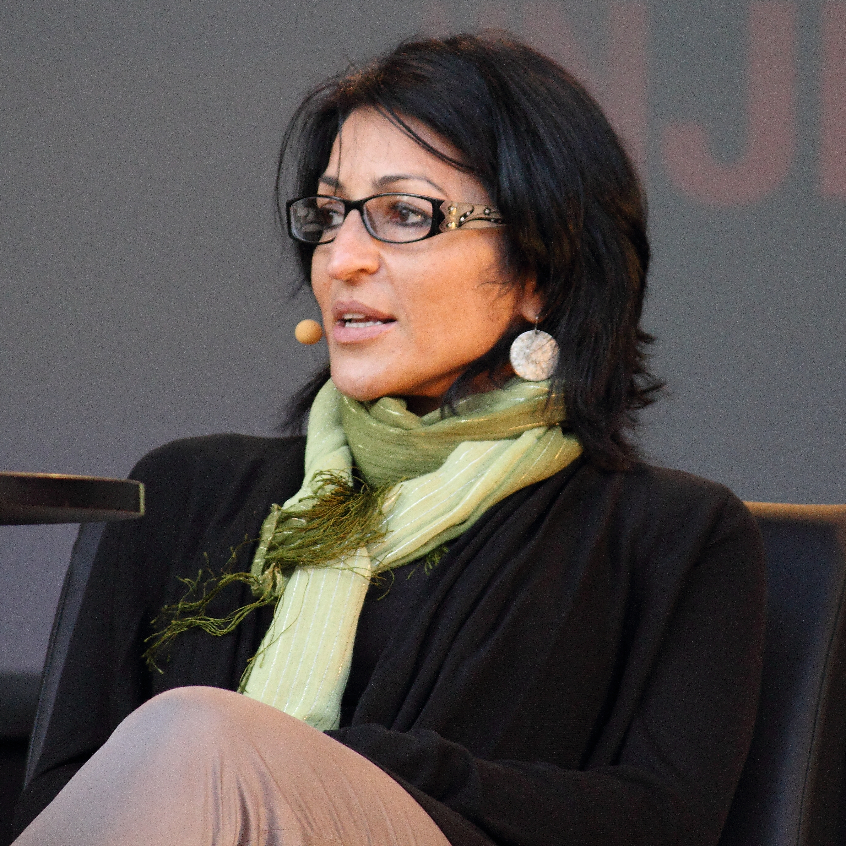 Susan Abulhawa at the Oslo Book Festival